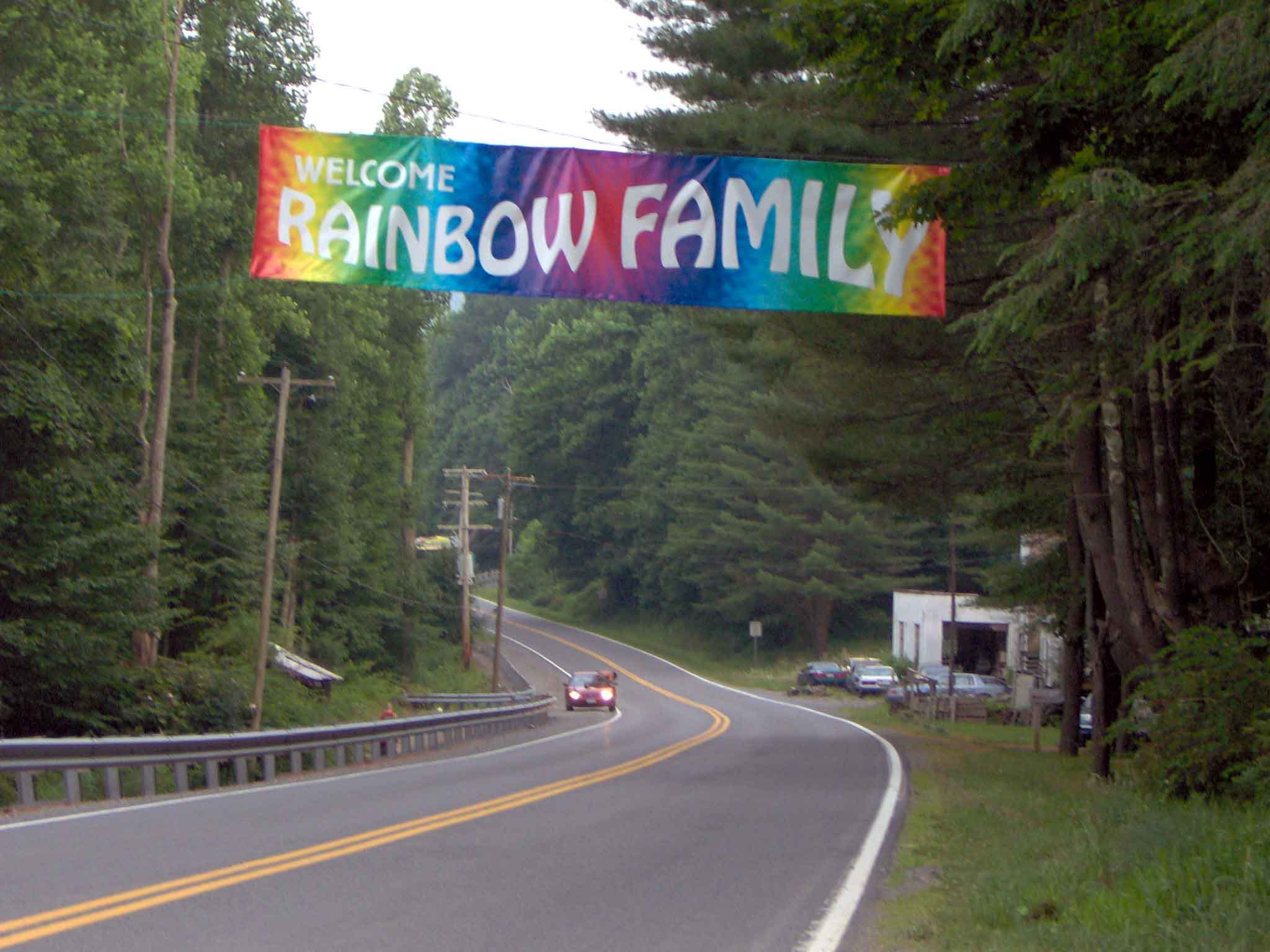 Photo taken 2005 Rainbow Gathering, Cranberry, WV, at Richwood